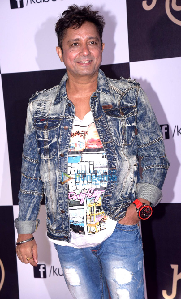 Singh at the launch of ‘KUBE’ in Mumbai